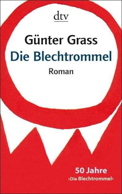 Book cover of Günter Grass "Die Blechtrommel" 1959